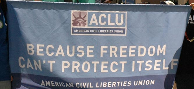 Photo by Michael Hanscom, Flickr creative commons, 2006, available at